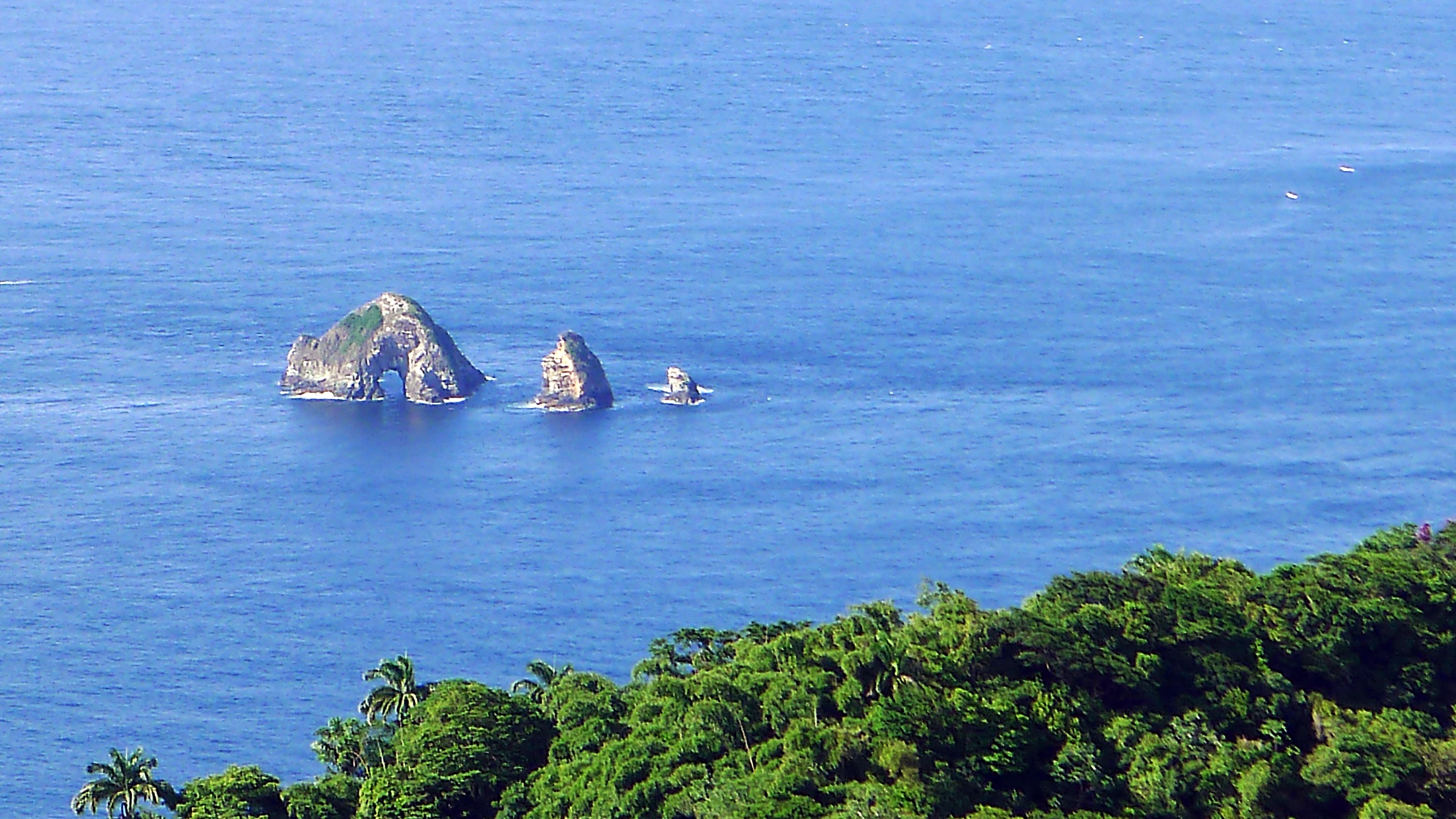 London Bridge Rock at St. Giles Island in Tobago is a fine example of an arch.